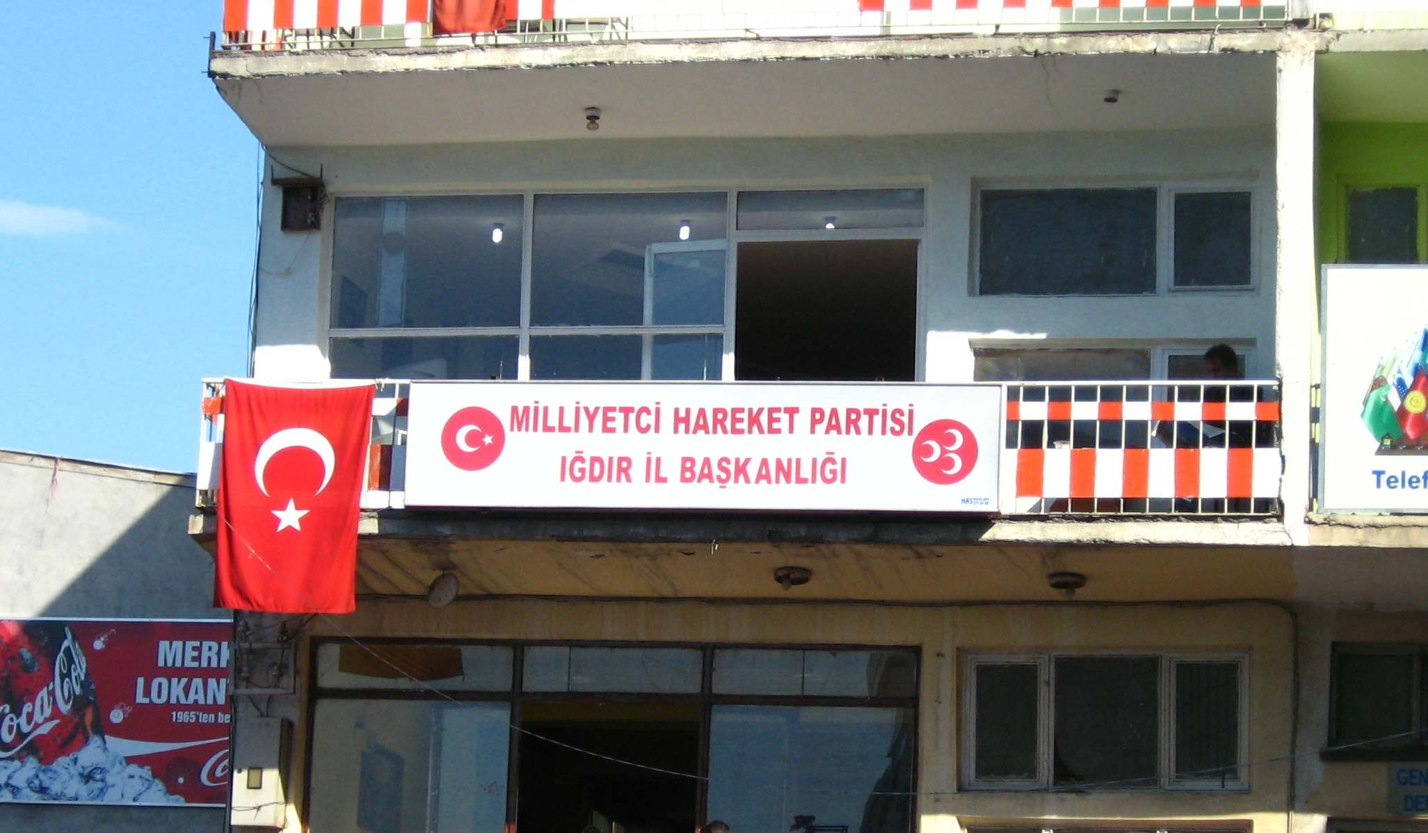 Nationalist Movement Party's office in Igdir, Turkey